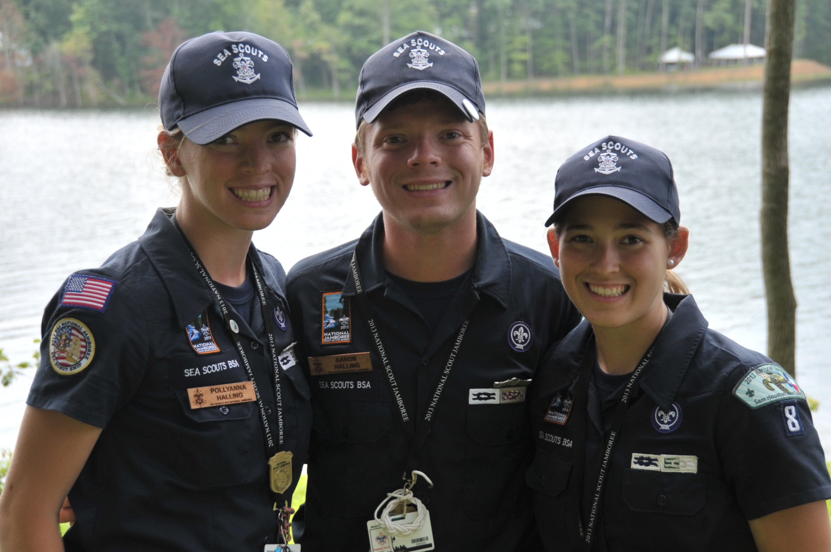 Texas A&M; seniors, and Sea Scout leaders, (from left) Pollyanna, Aaron, and Lilliebeth Halling taught Boy Scouts at the 2013 National Scout Jamboree about the Sea Scouts and boating safety July 22, 2013. U.S. Coast Guard photo by Chief Warrant Officer Russell Tippets.